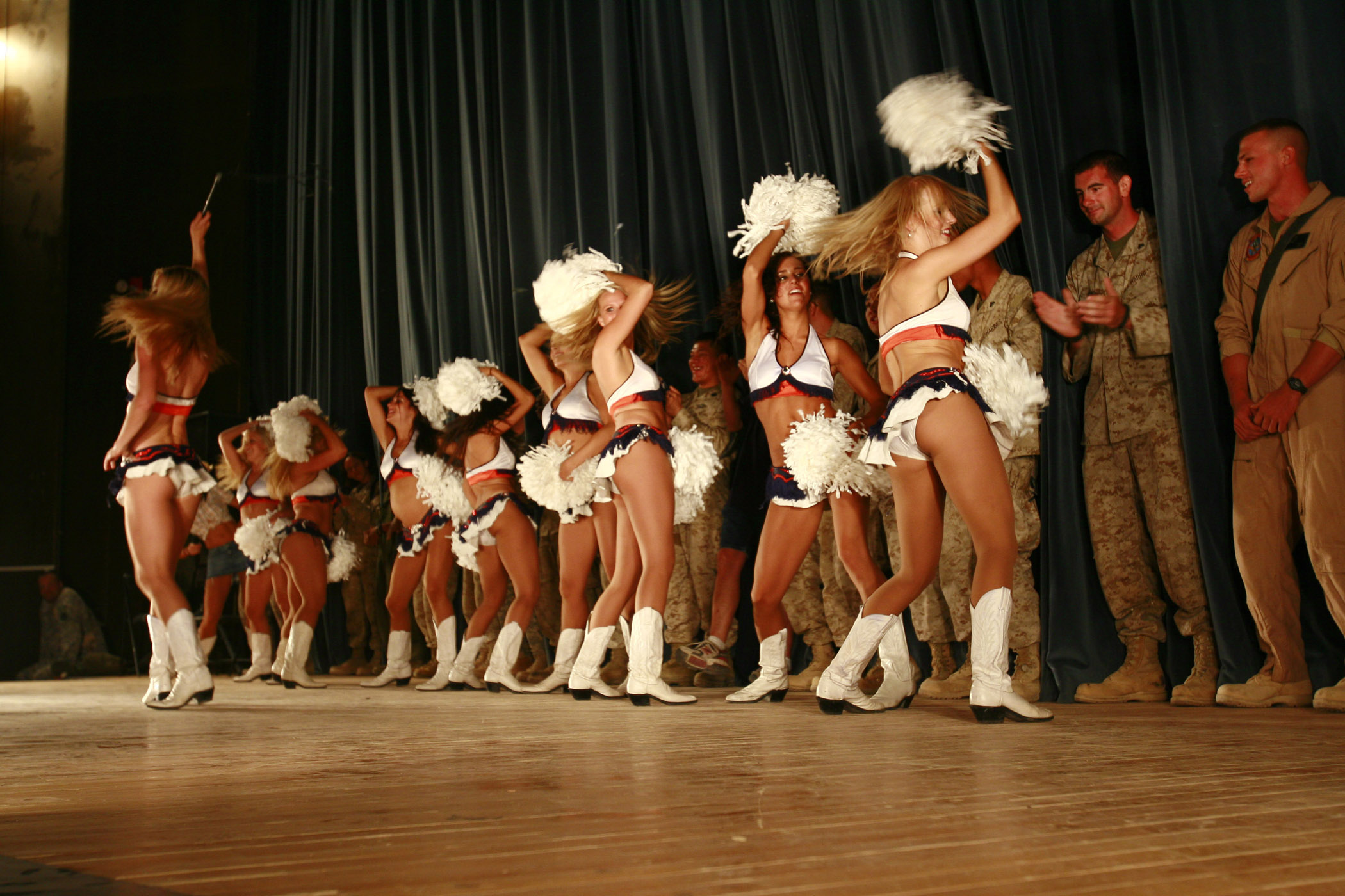 Cheerleaders from the Denver Broncos dance with service members during their performance July 20, at the base theater at Al Asad, Iraq. There was a lot of audience participation and that is a great way to get everyone more involved with the show, according to Kari L. Gratz, tour manager for the cheerleaders.